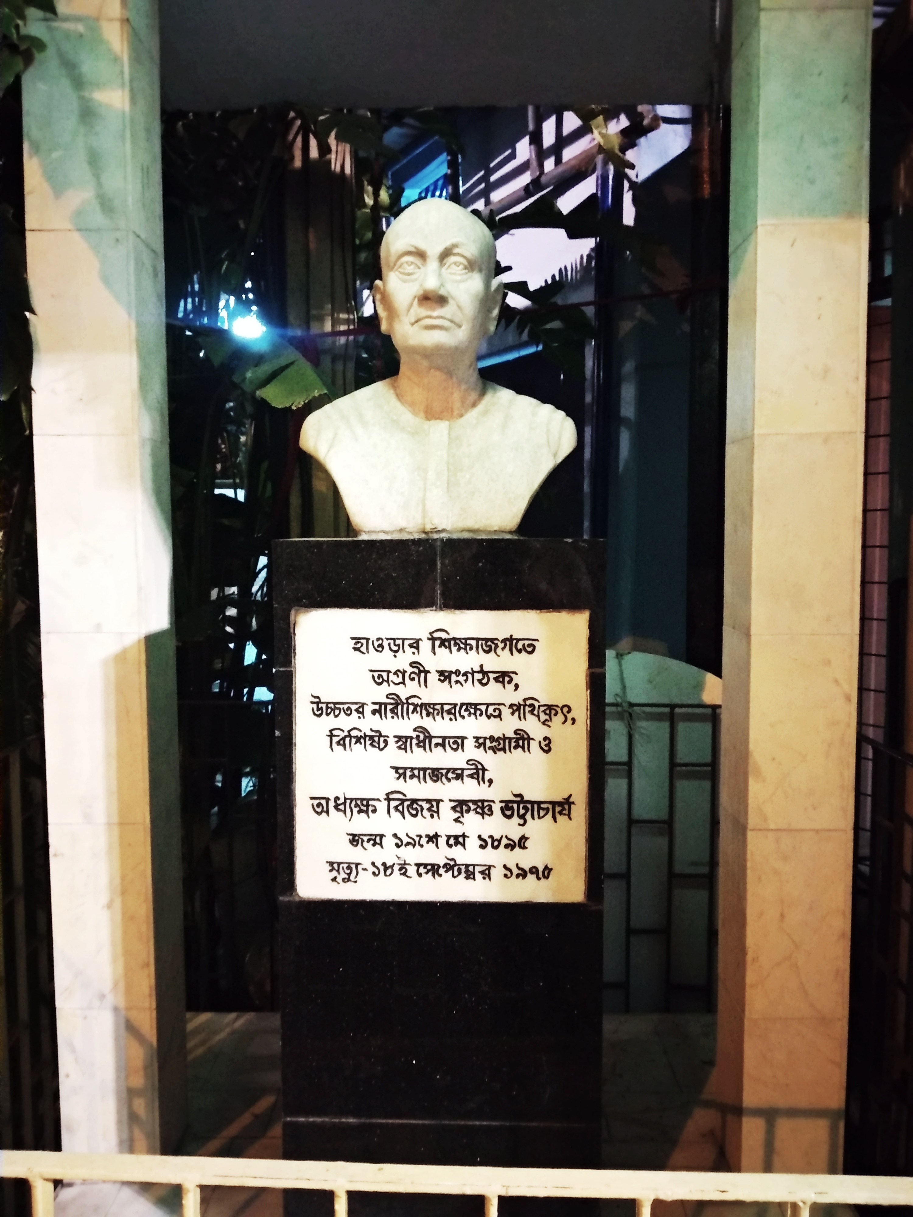 statue of prof. Bijoy Krishna Bhattacharya